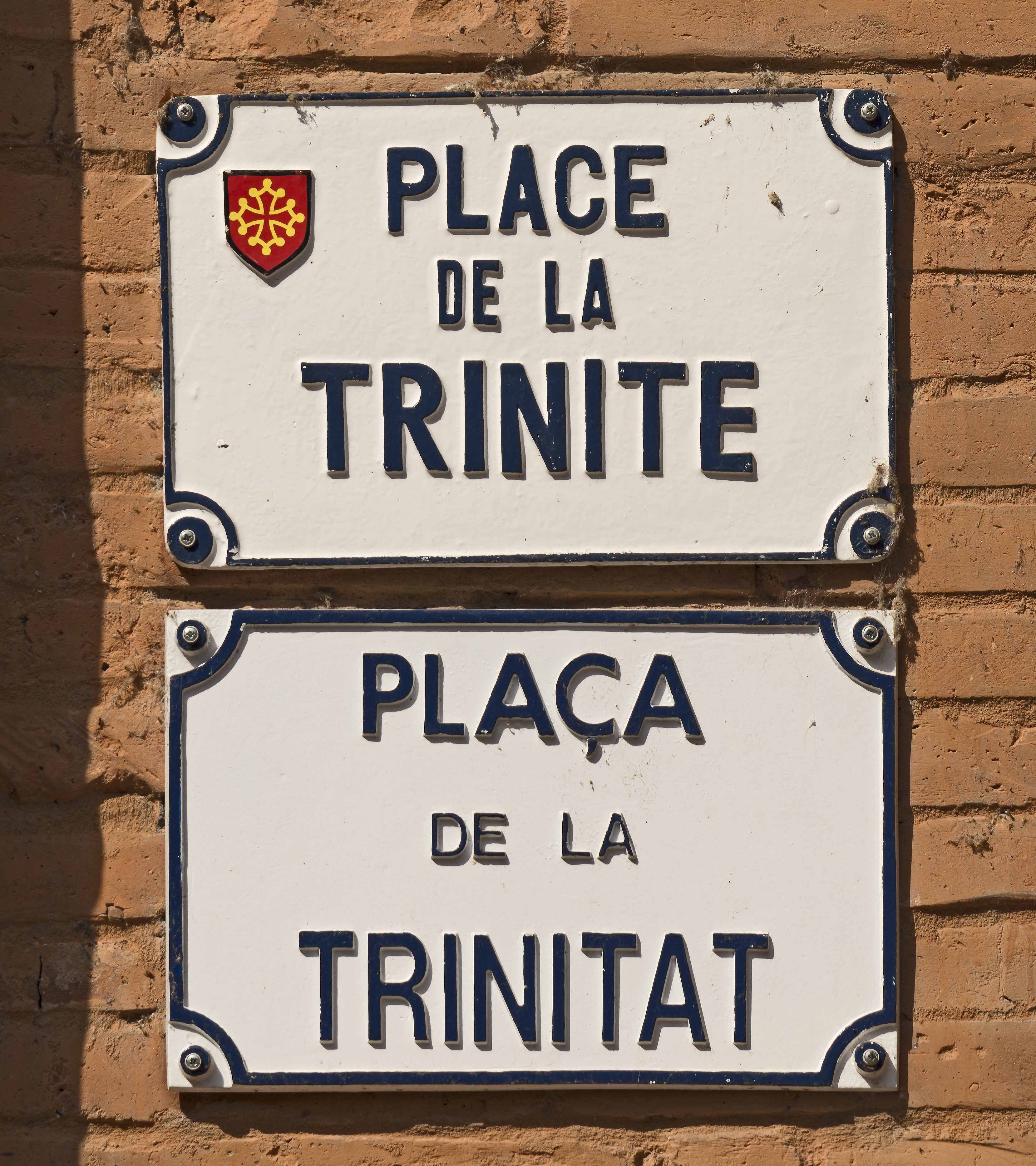 Place de la Trinité, in Toulouse - Street name sign. They have the particularity of being: in French and Occitan.